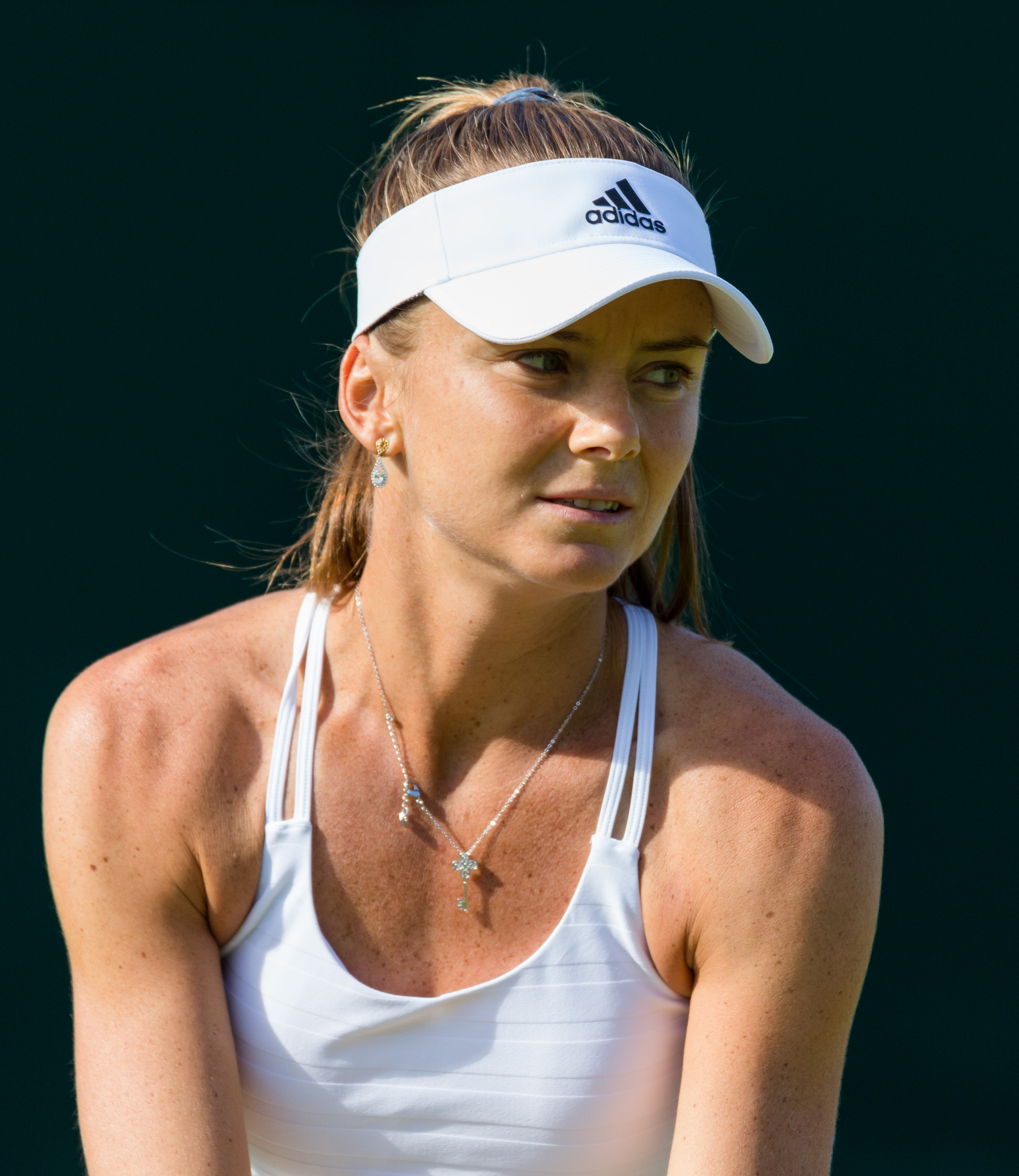 Daniela Hantuchová competing in the first round of the 2015 Wimbledon Championships against Dominika Cibulkova.